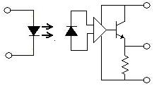 Optically isolated ac linear coupler